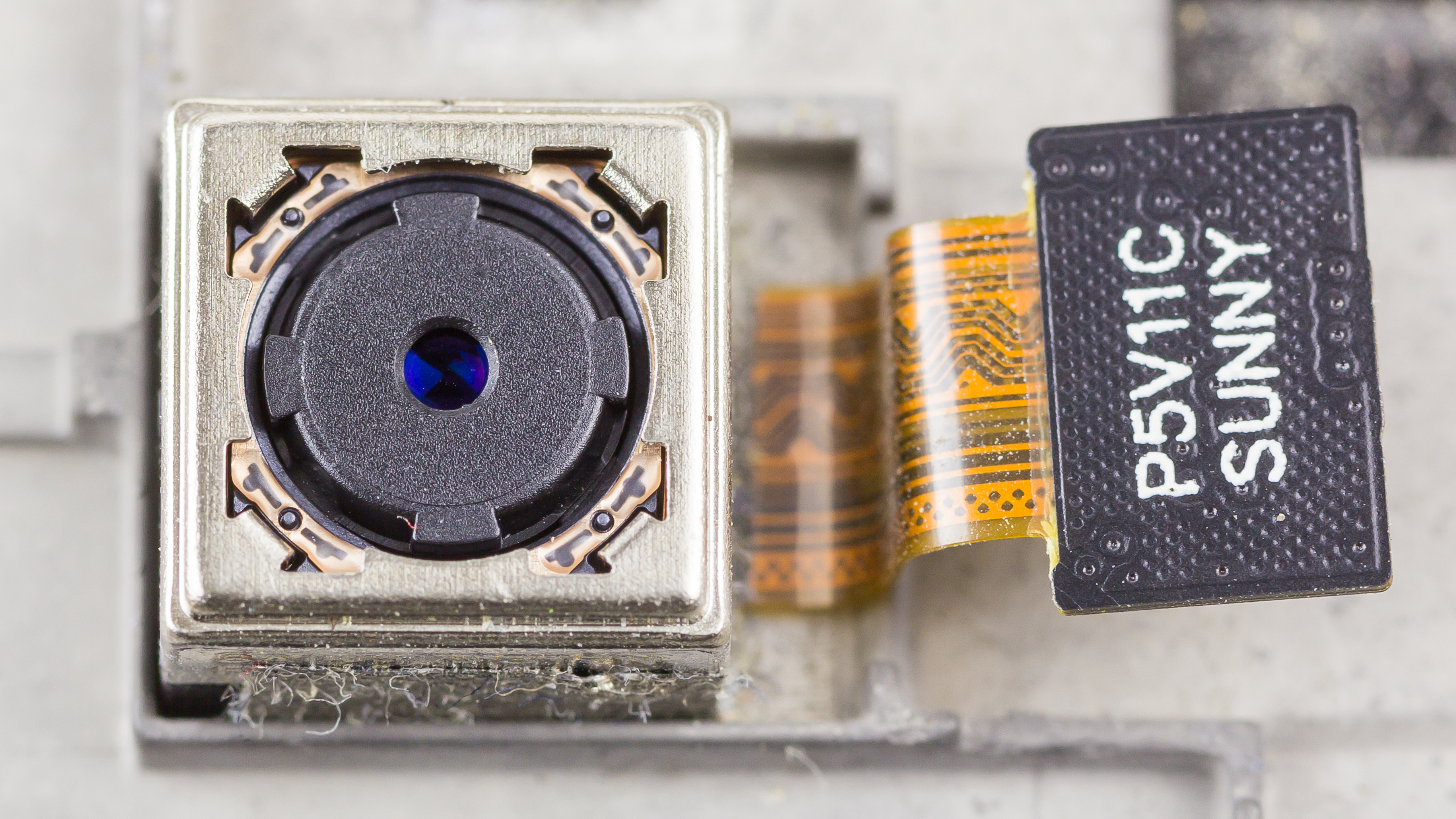 Huawei W1-U00 - rear camera P5V11C Sunny with connector